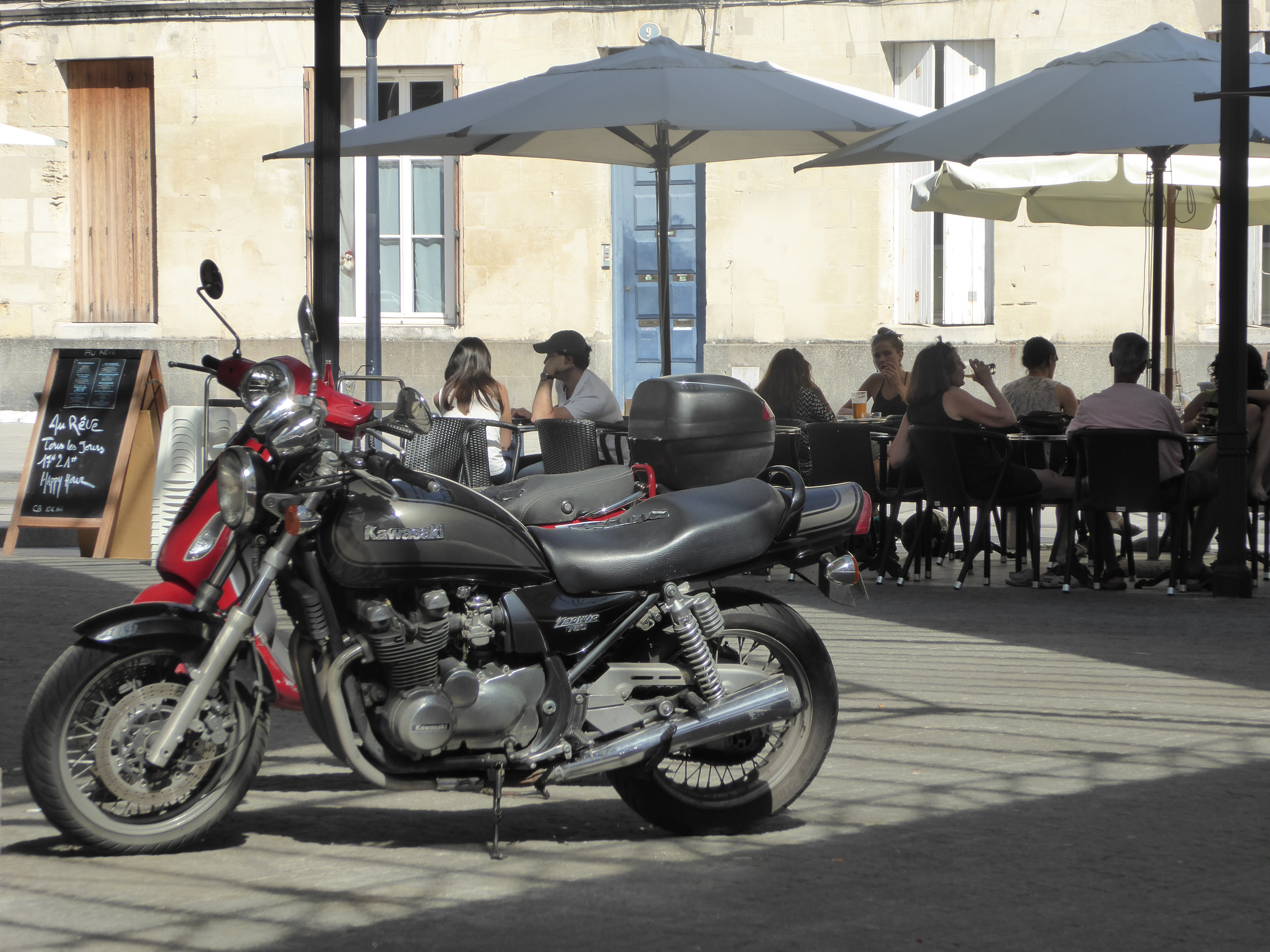 Place du Marché des Chartrons, Bordeaux, France, July 2014